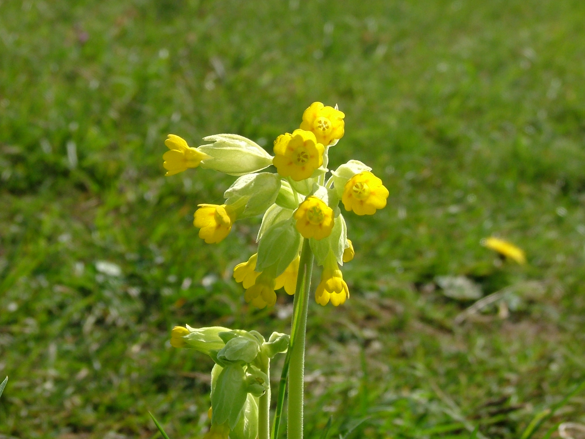 A Primula veris, or cowslip, on Selsley common, in Gloucestershire, UK. Primula veris